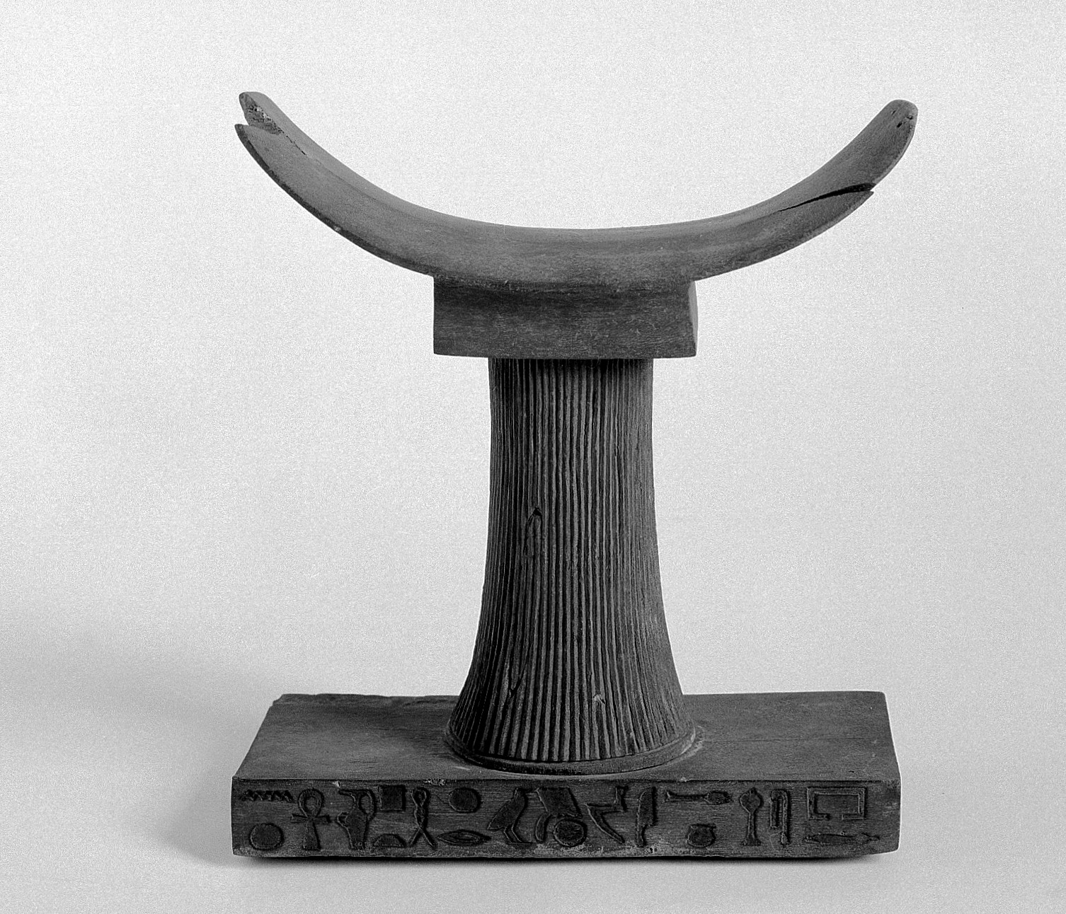 Egyptian wooden pillow with inscription on base; translation; The Chief Doctor of the King, the faithful vassal of Ptah, Khnemarkh Wellcome Images Keywords: ancient egypt